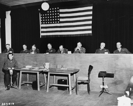 Buchenwald Trial 11. August 1947 - 14. August 1947. The eight American officers of the U.S. military tribunal at the trial of former camp personnel and prisoners from Buchenwald. The court personnel pictured from left to right are Lt. Col. Morris, Col. Robertson, Col. Ackerman, Brig. Gen. Kiel, Lt. Col. Dwinell, Col. Pierce, Col. Dunnning, and Lt. Col. Walker.